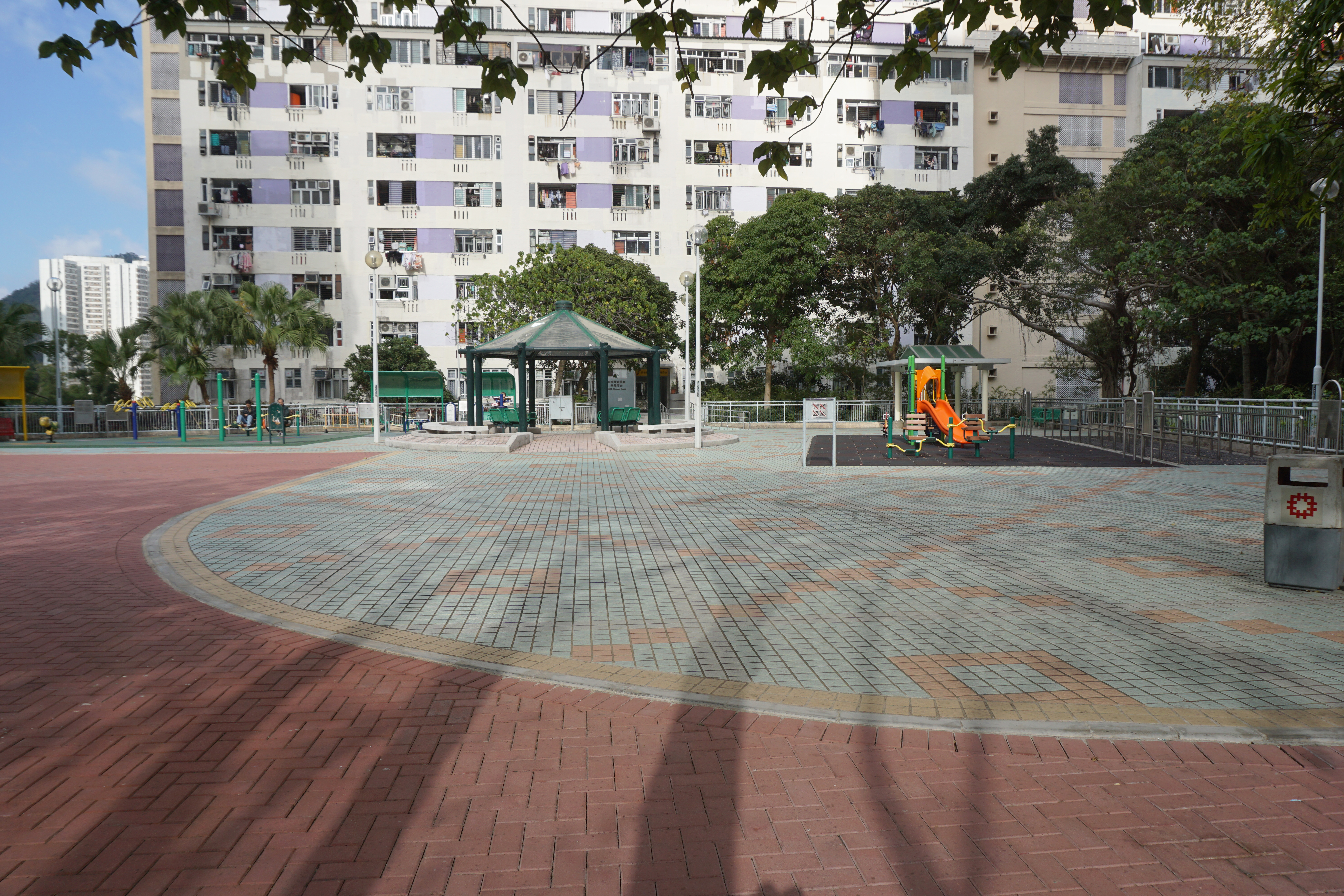 Hing Wah (II) Estate in Chai Wan, Hong Kong.